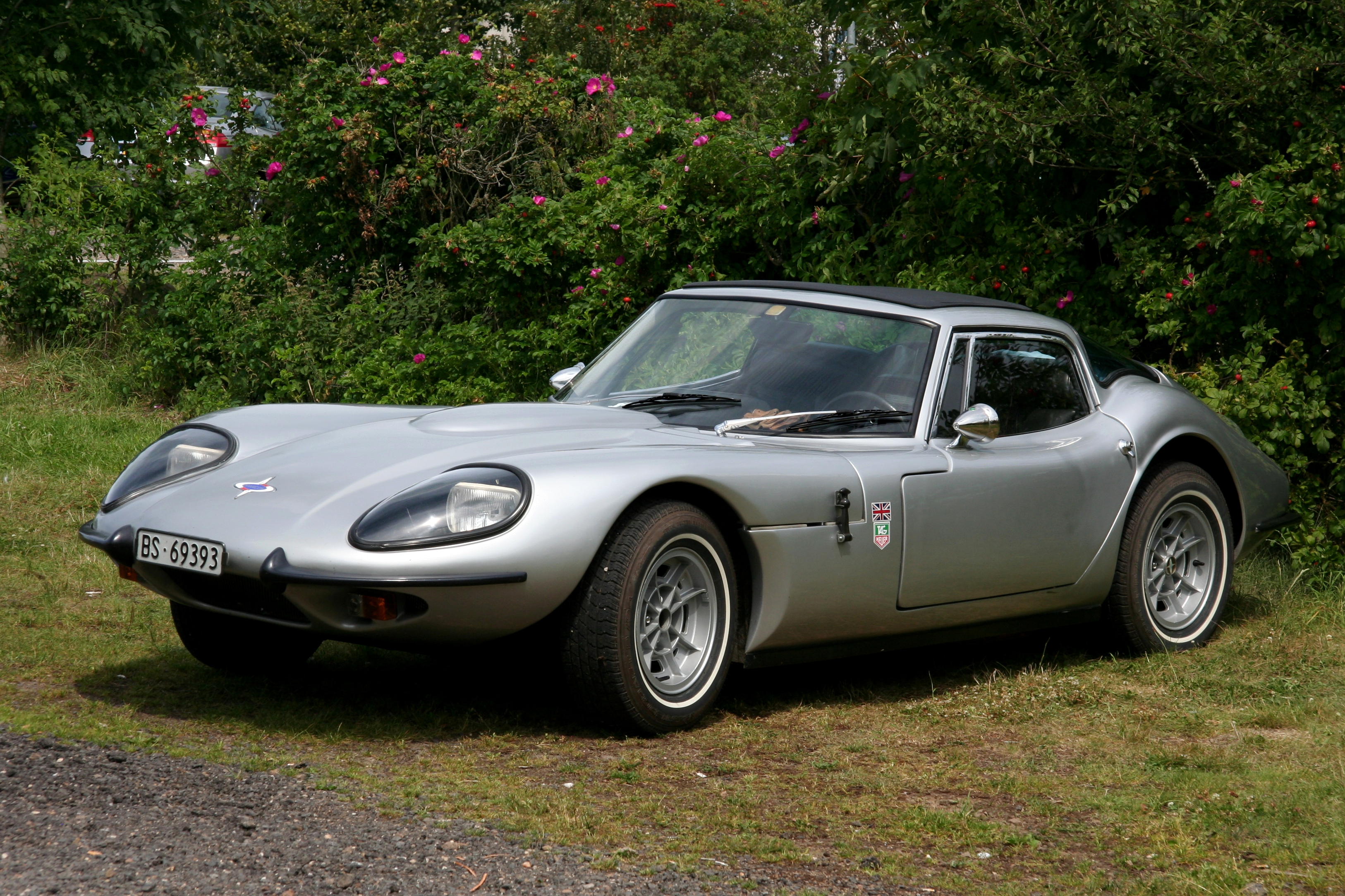 Circa 1970 Ford-engined Marcos 3-litre with Swiss registration plates (Basel).